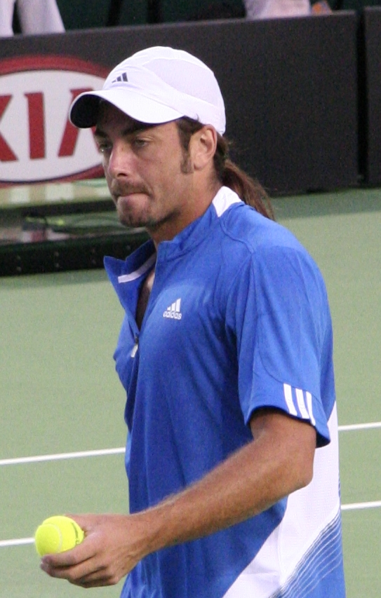 Nicolas Massu at their first-round match of the 2007 Australian Open.